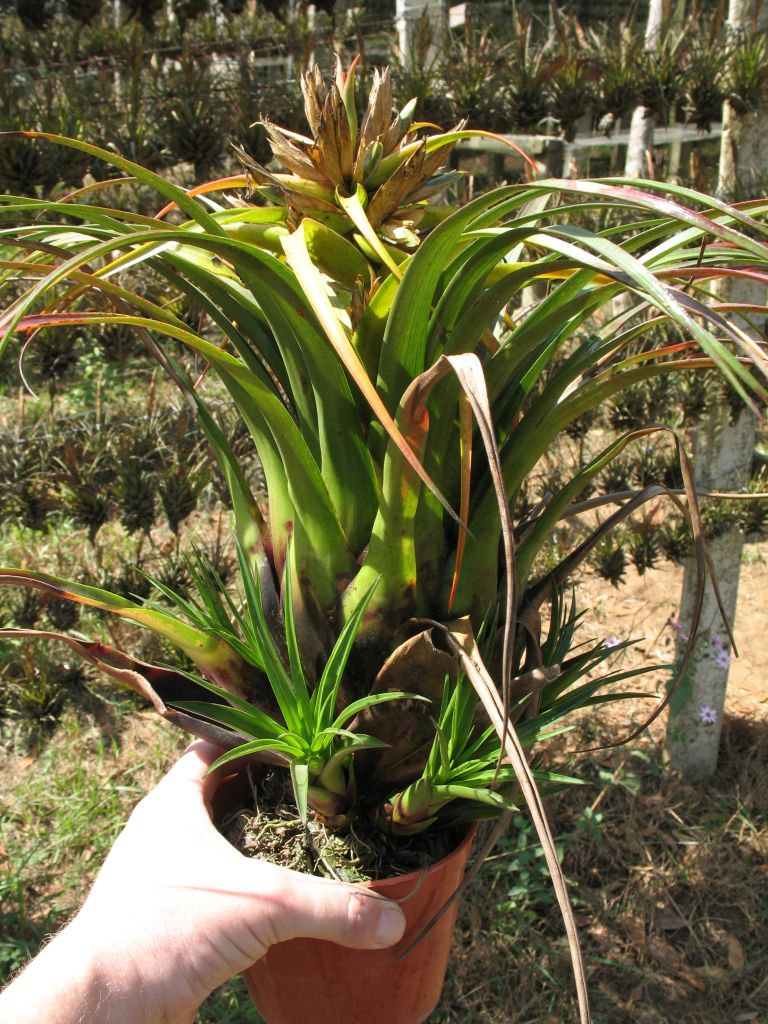 Tillandsia trigalensis with offsets in cultivation in a nursery near Guatemala City, Guatemala; 1965m.